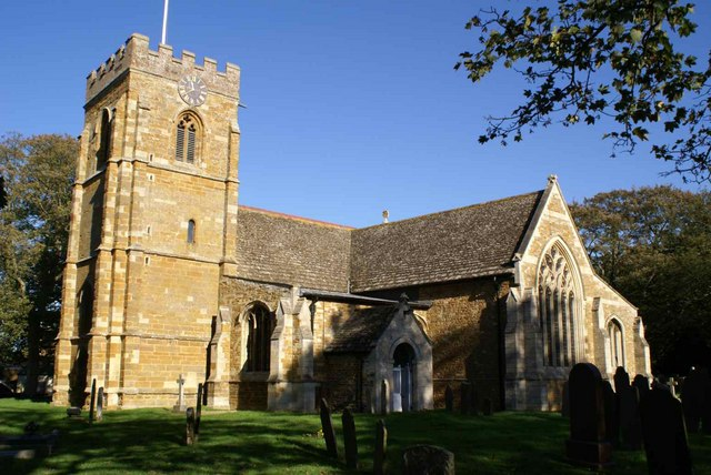 St Giles Church Medbourne, Leicestershire, Great Britain